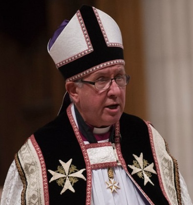 The Right Reverend Timothy John Stevens, CBE, GCStJ, Prelate of the Venerable Order of St John, at the Investiture service of the Priory in the USA on 21 October 2017 in Washington, DC, USA.